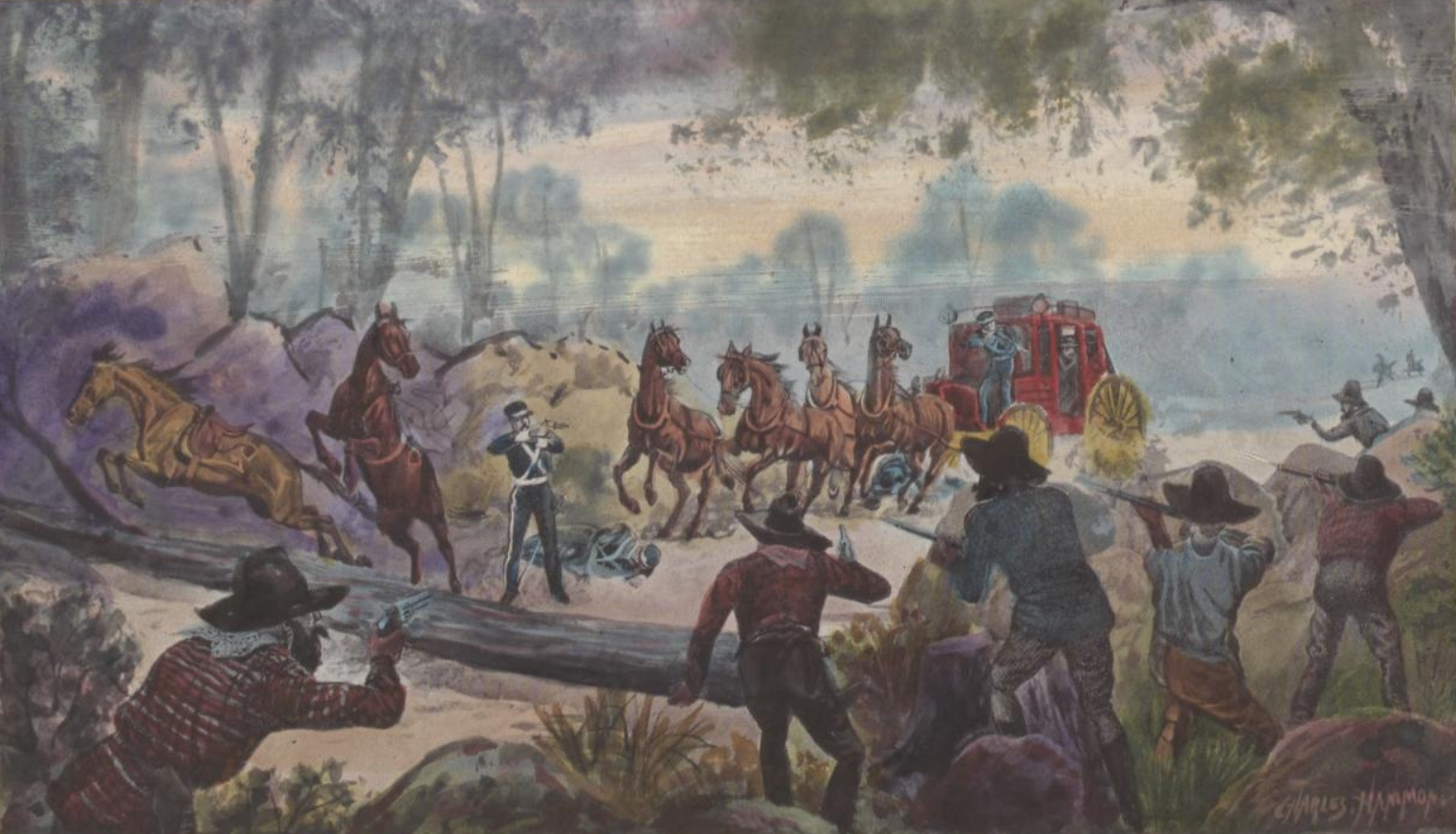 Robbery Under Arms, No. 5. "Starlight" and His gang sticking up the Turon Gold Escort, hand-coloured postcard. A collection of reproductions from the pen, brush and camera of Charles E. Hammond, artist and photographer. Book No. 2.